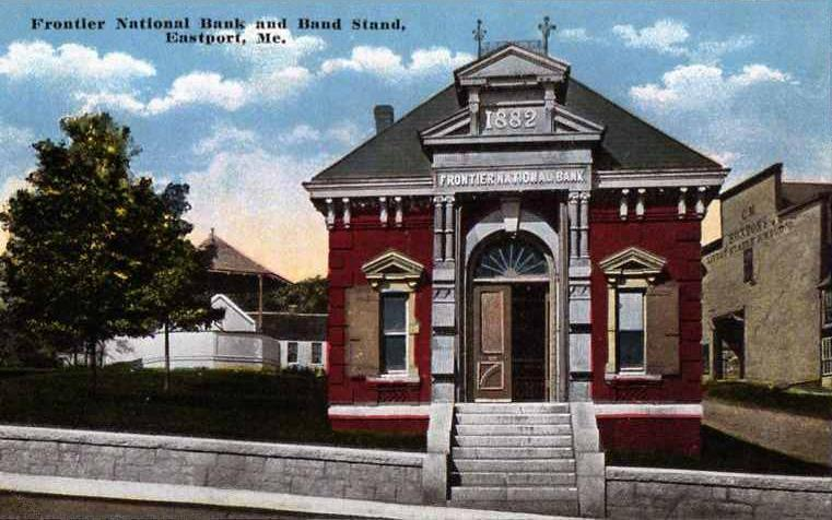 Frontier National Bank and bandstand, Eastport, Maine. Designed by Charles Kimball, it was built in 1882. The building is now the Eastport Police Station.